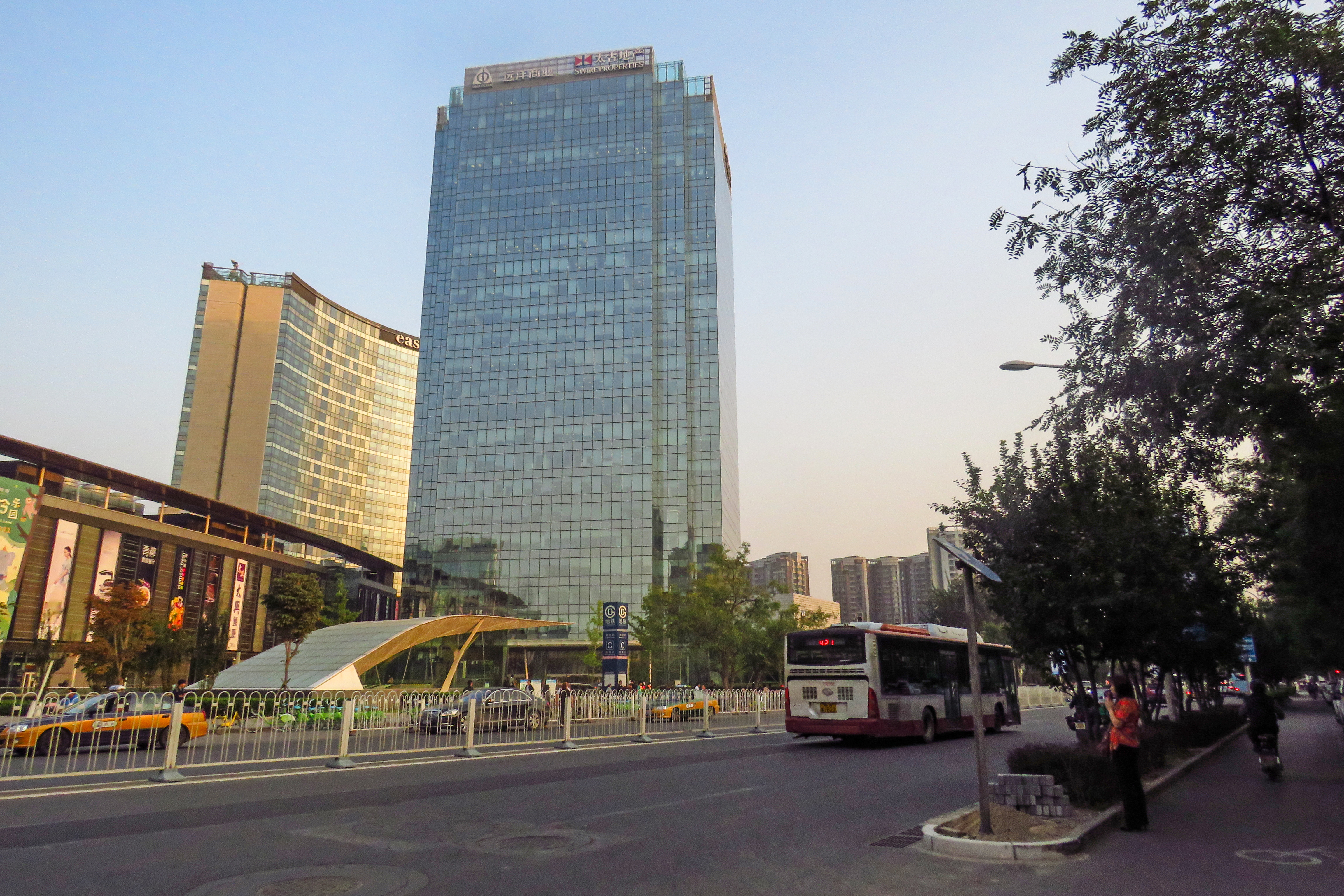 I saw Swire markings... Indigo consists of a shopping mall, an office building and a hotel (EAST, Beijing).